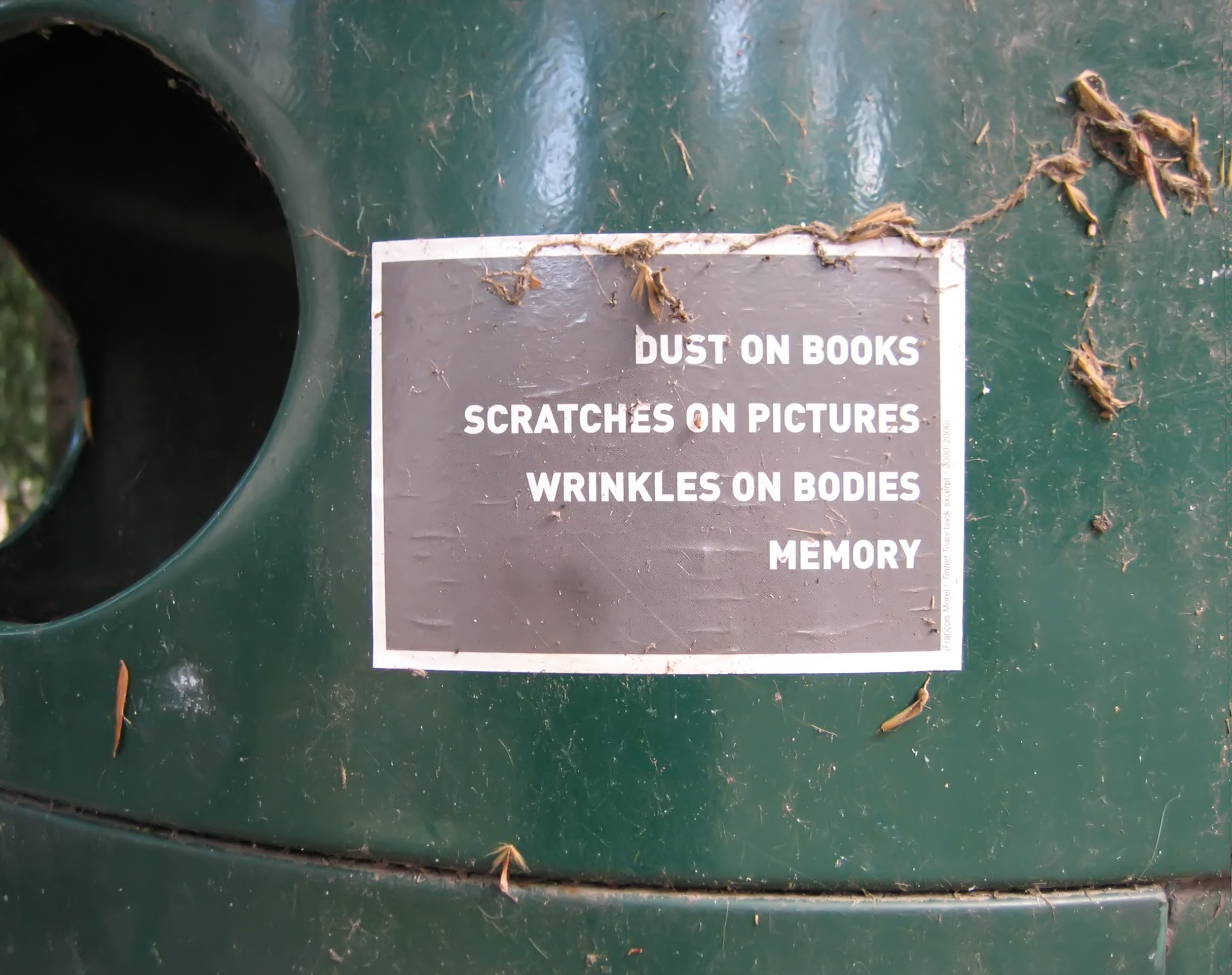 Sticker on a dust bin at the Biennale di Venezia 2007